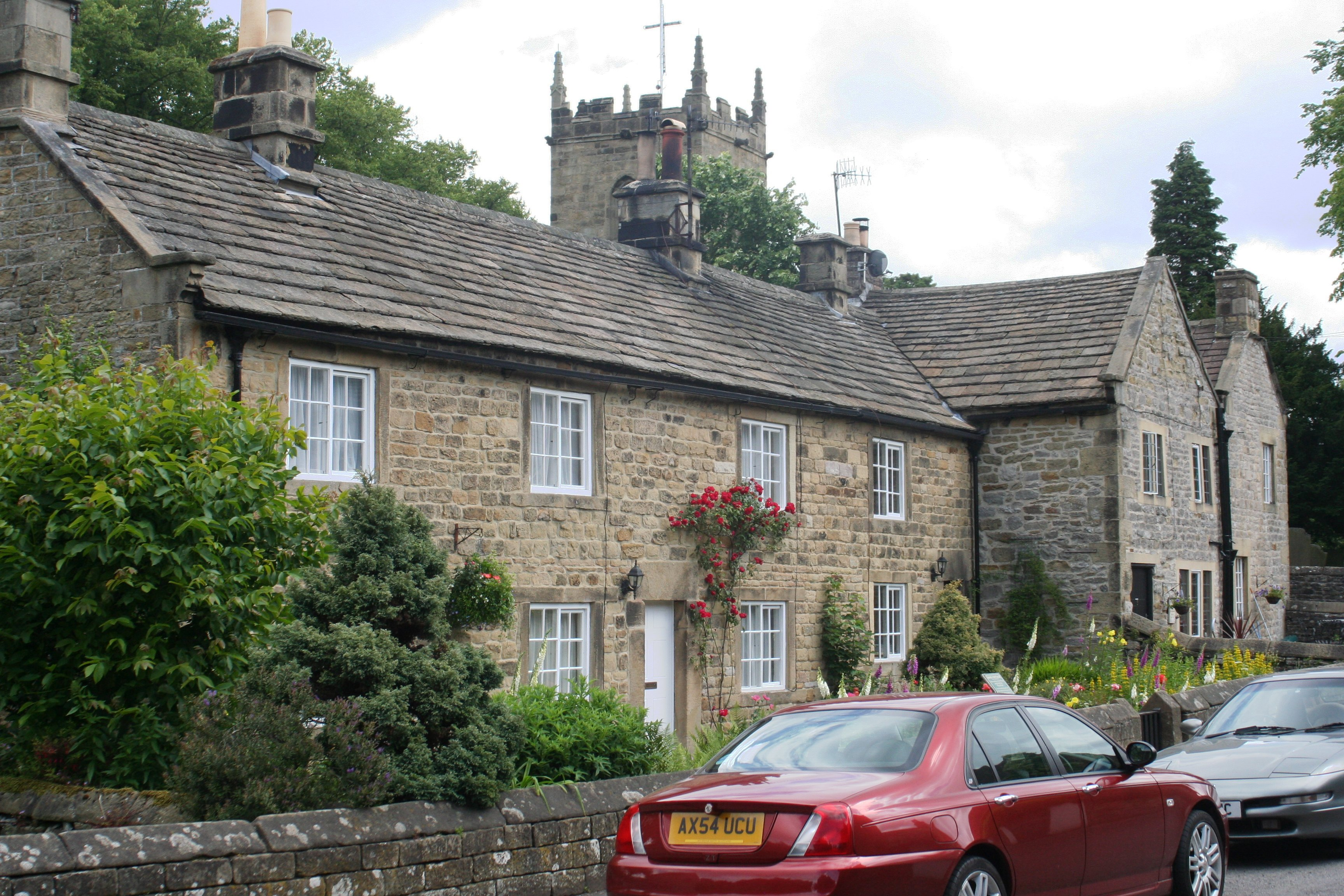 Cottages of victims of the 1665-1666 plague in Eyam, Derbyshire, England. Left-to-right are the homes of the Thorpe family, Mary Hadfield's family, and the Hawksworth family.